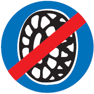 Luxembourg road sign diagram